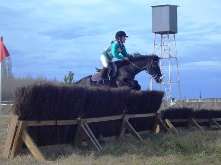 Pony Jumping Brush at Orari Race Course, Canterbury, New Zealand 2005.